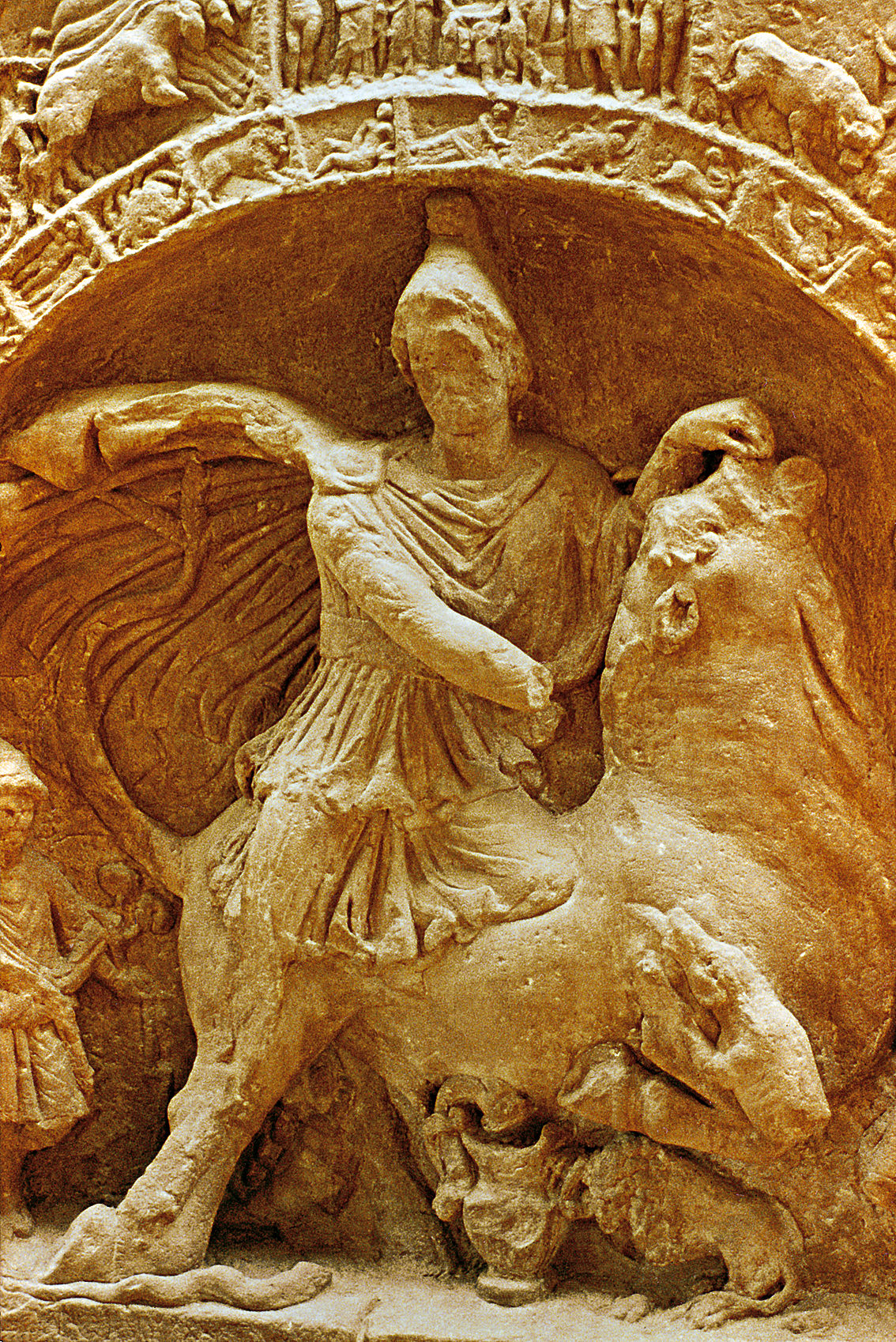 Stone from a Mithras-temple at Osterburken, Germany.